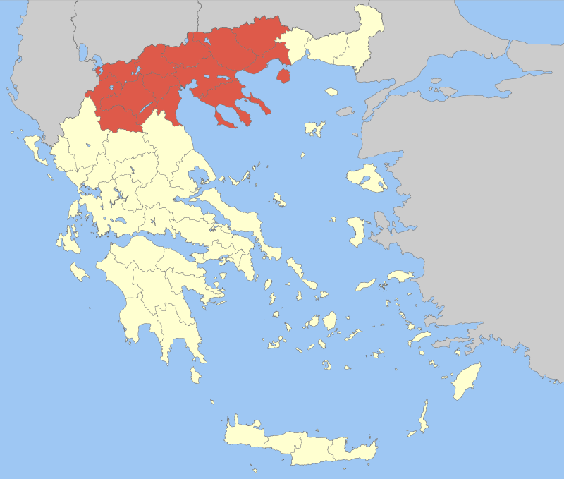 Position of Greek macedonia within Greece